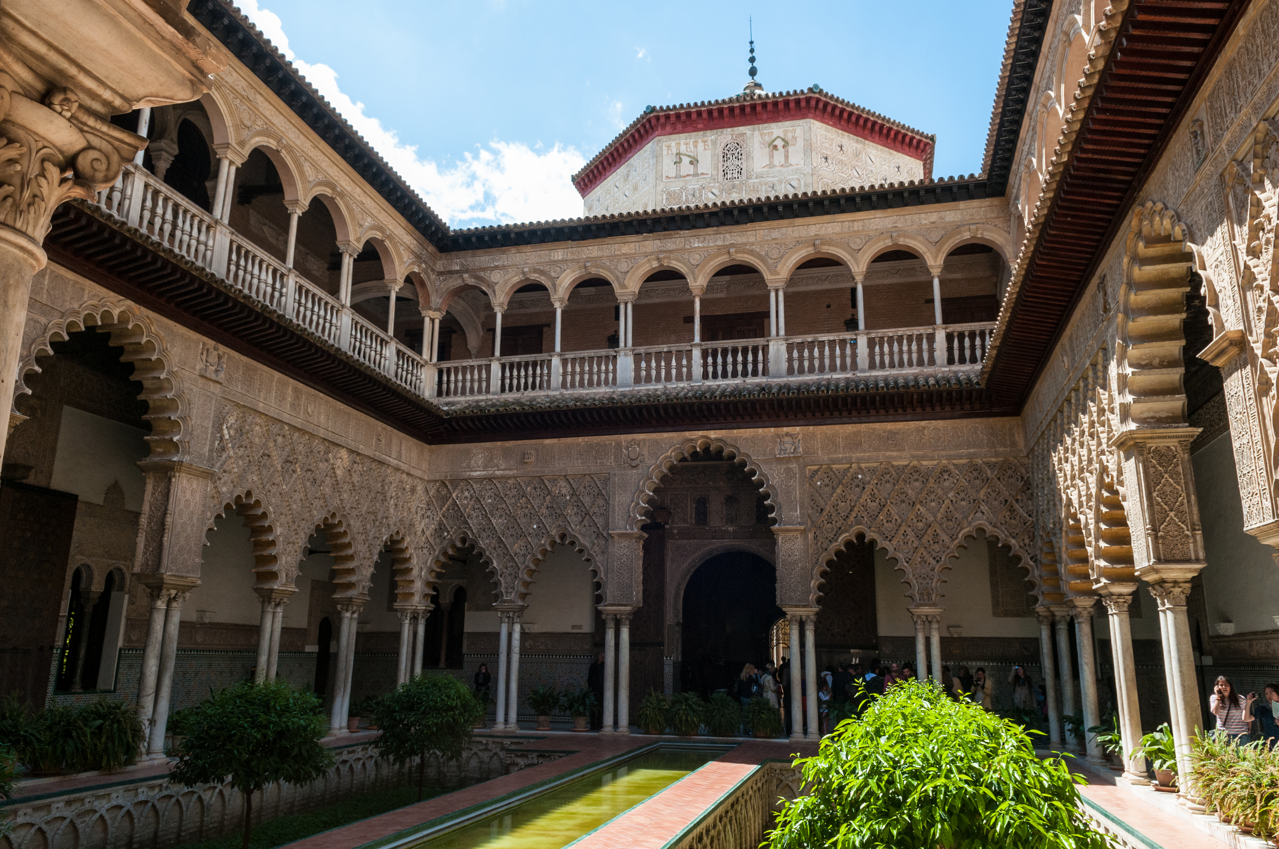 The Alcázar of Seville (Spanish "Reales Alcázares de Sevilla" or "Royal Alcazars of Seville") is a royal palace in Seville, Spain, originally a Moorish fort. The Almohades were the first to build a palace, which was called Al-Muwarak, on the site of the modern day Alcázar. The palace is one of the best remaining examples of mudéjar architecture. Subsequent monarchs have added their own additions to the Alcázar. The upper levels of the Alcázar are still used by the royal family as the official Seville residence and are administered by the Patrimonio Nacional. Alcázar of Seville. (2012, April 14). In Wikipedia, The Free Encyclopedia. Retrieved 22:34, April 14, 2012, from